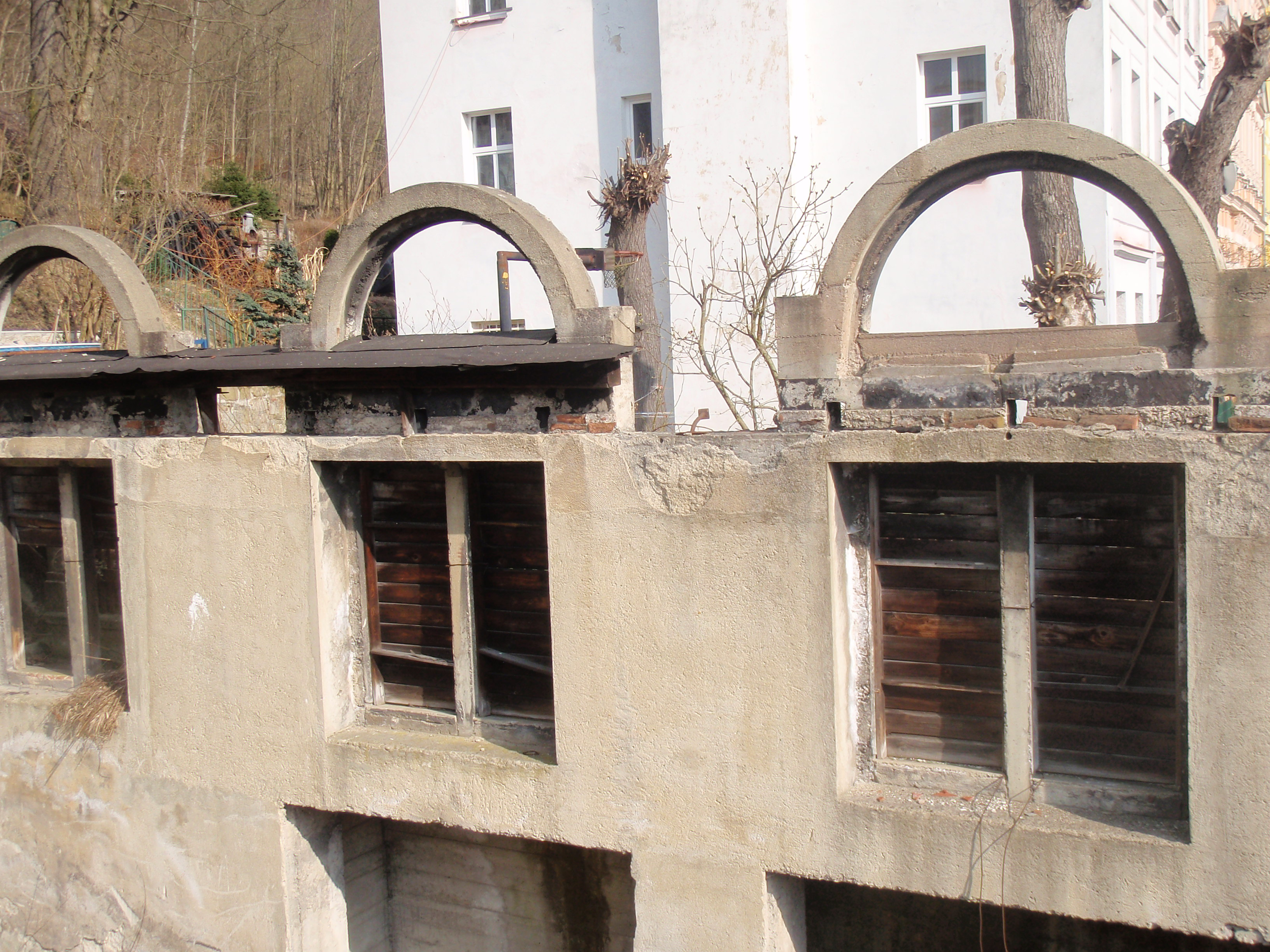 Tři Kříže Funicular